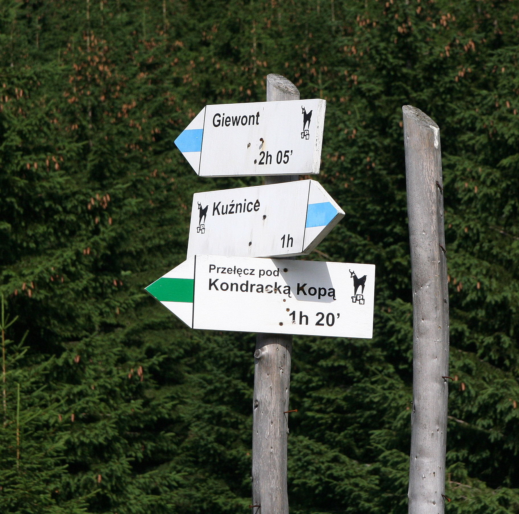 Guide-post on Kondracka.